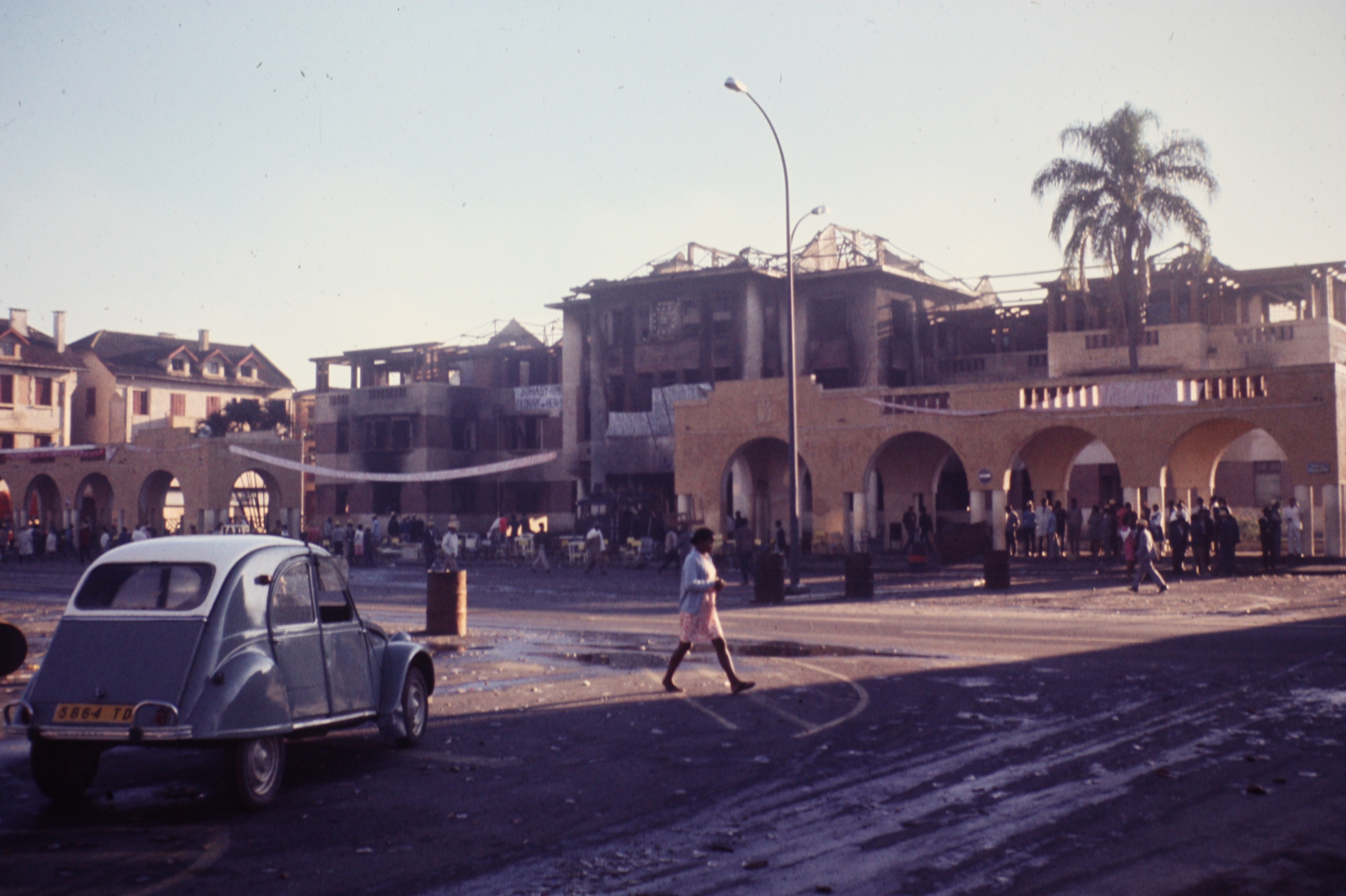 Taken in Madagascar in the mid-1970's. Burned Antananarivo (formerly Tananarive) city hall.